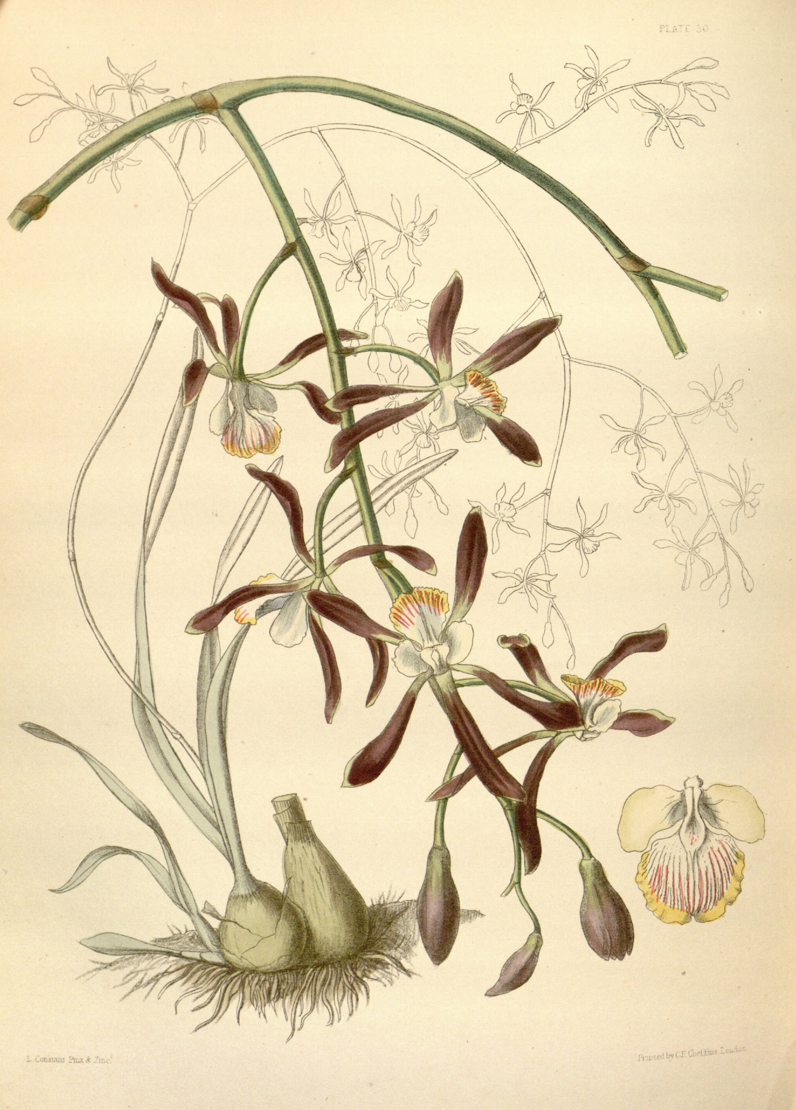 Encyclia alata subsp. alata, syn. Epidendrum longipetalum Lindl. & Paxton, nom. ill.